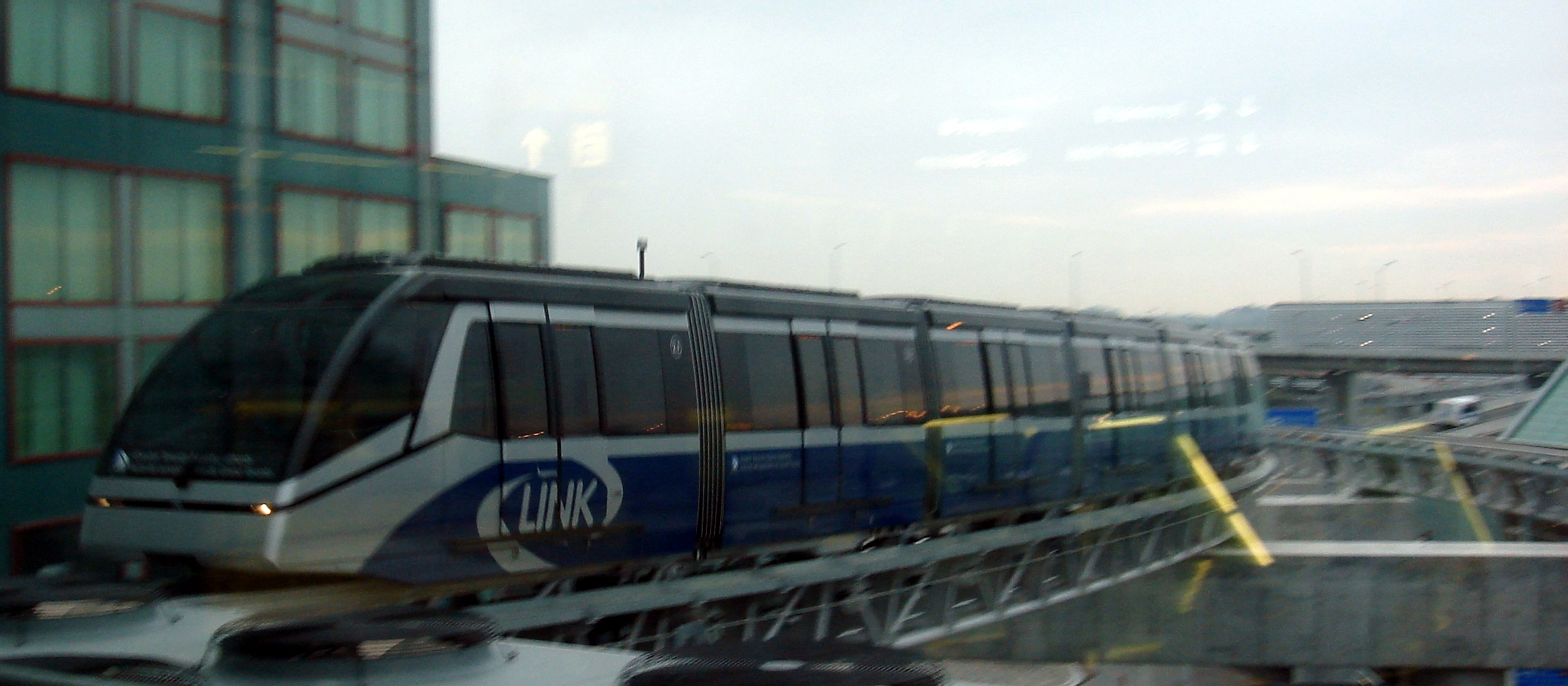 LINK shuttle at Toronto Peason Airport - Terminal 3